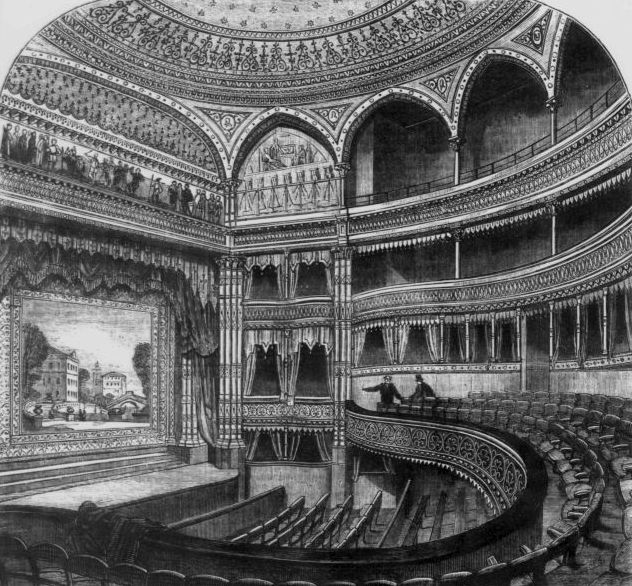 Interior of the Gaiety Theatre, London, 1869, scanned from "The Gaiety Theatre, Strand", London Journal, 6 February 1869, p. 87